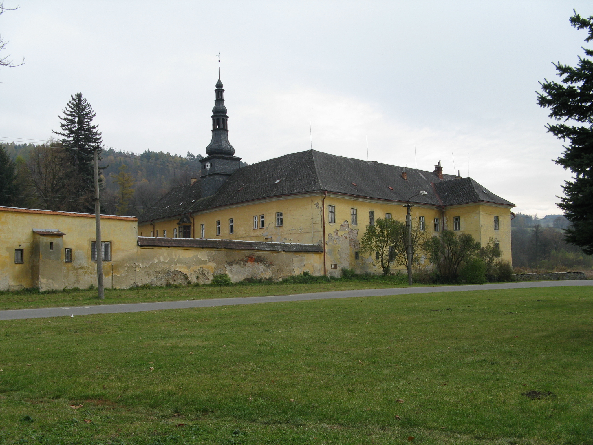 Ruda nad Moravou, Šumperk District, Czechia.